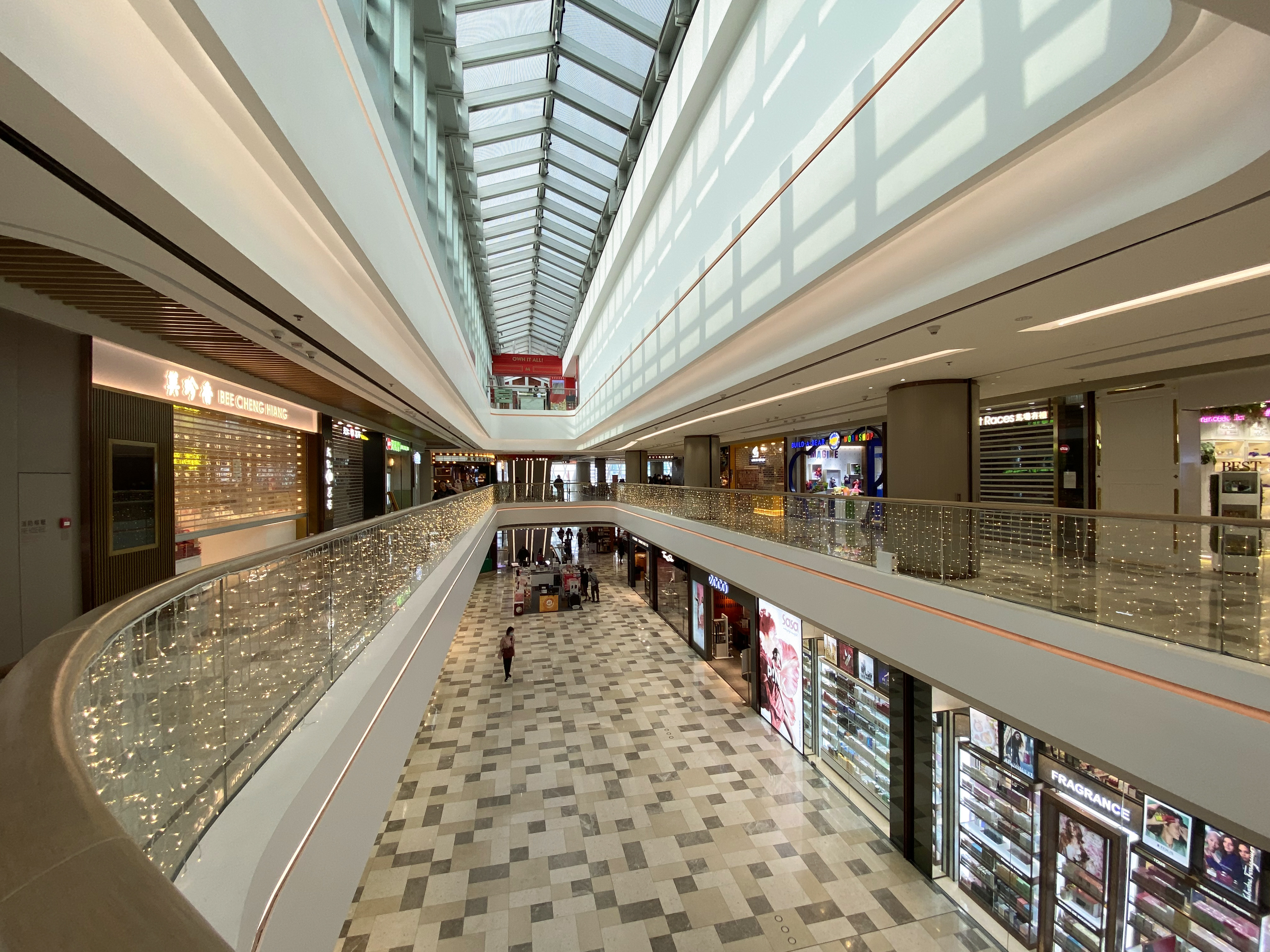 The Peak Galleria Void